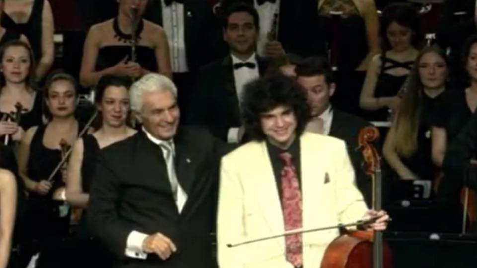 Jamal and Maestro Aykal - after a concert